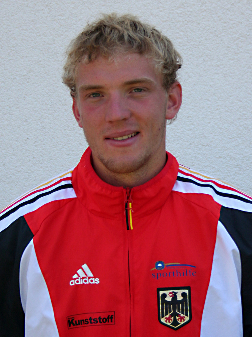 Martin Hollstein Olympic Champion Canoe Sprint